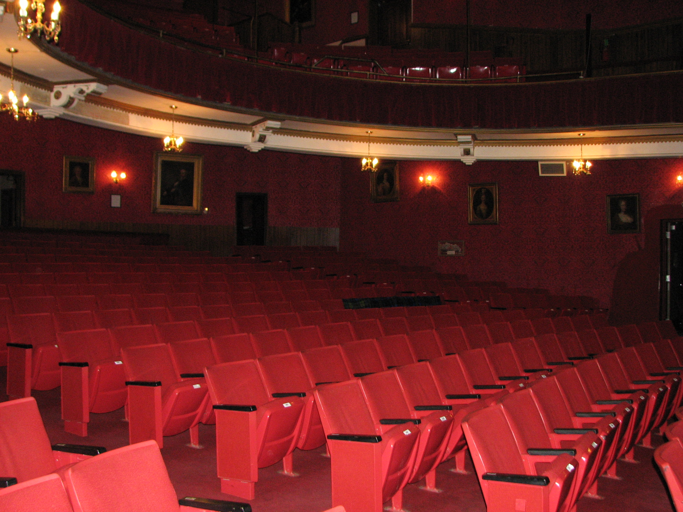 Picture of the seating area inside Tibbits Opera House